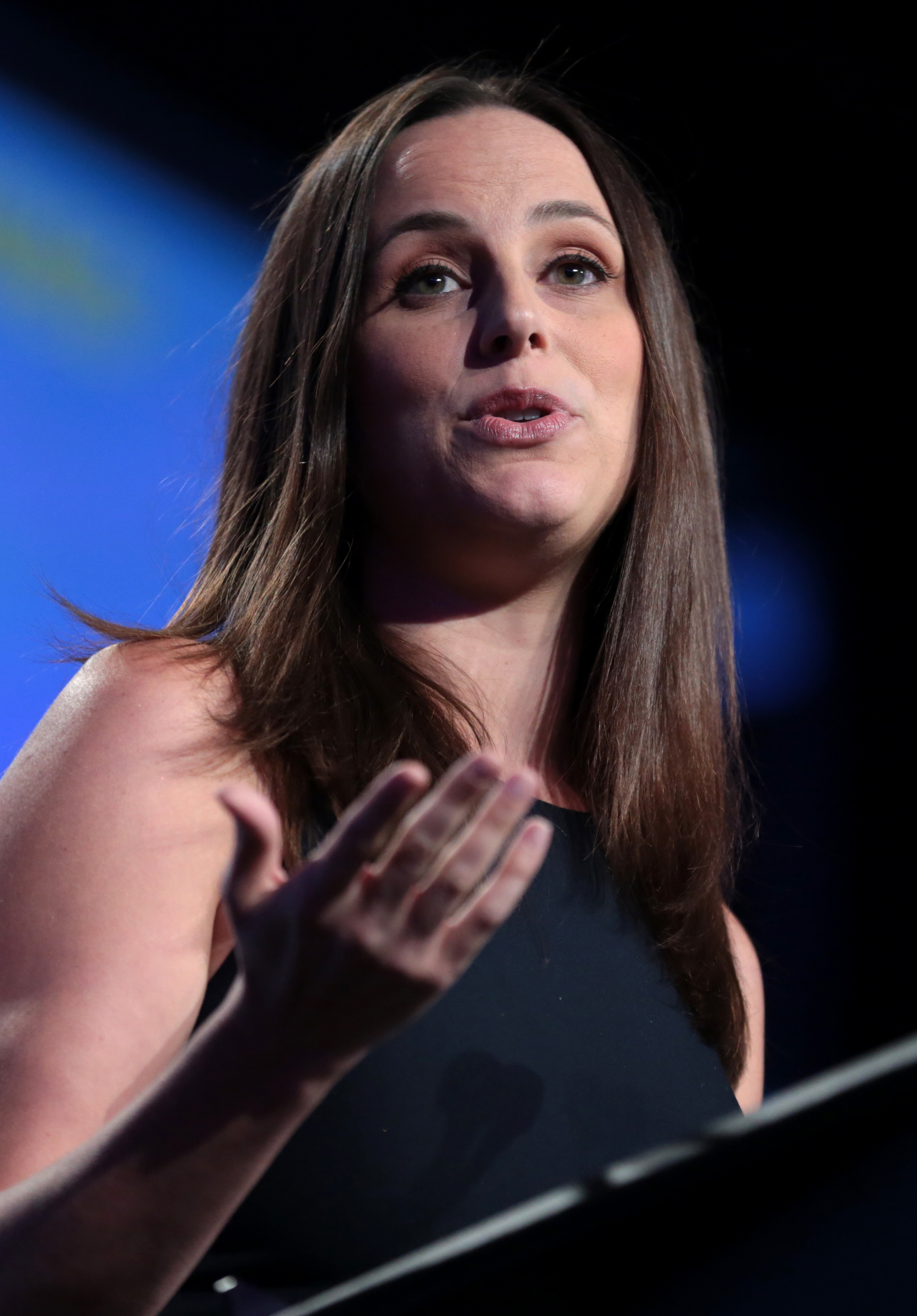 Alicia Menendez speaking at an event in Phoenix, Arizona.